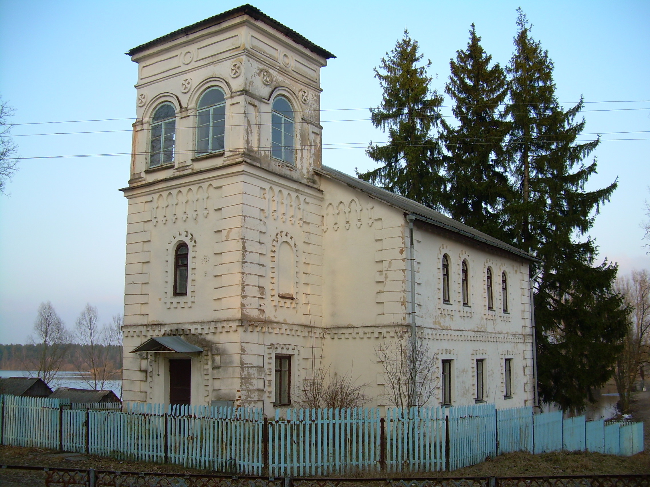 Беларуская (тарашкевіца): Сядзіба. в. Жамыслаўль This is a photo of Belarusian heritage monument. Reference number: 413Г000296 ( WLM)